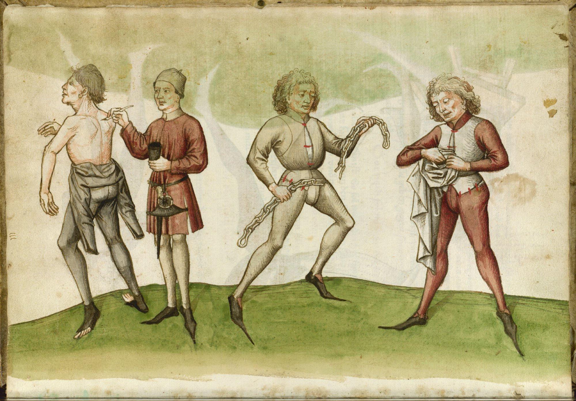 The Ms.Thott.290.2º is a fencing manual written in 1459 by Hans Talhoffer for his own personal reference and illustrated by Michel Rotwyler.